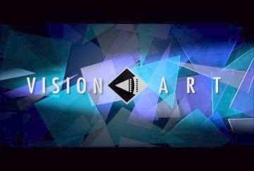 VisionArt color logo